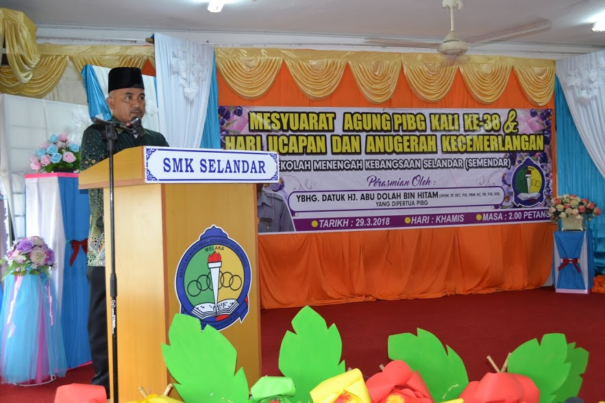 GAMBAR 8